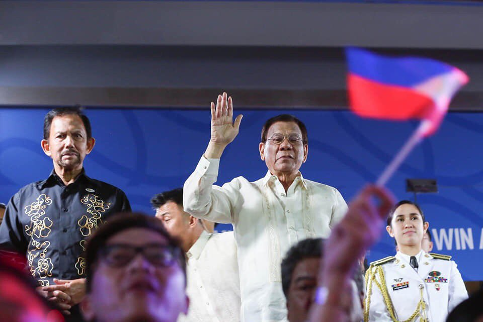 President Rodrigo Roa Duterte waves to the Philippine delegation during the opening ceremony of the 30th Southeast Asian (SEA) Games at the Philippine Arena in Bocaue, Bulacan on November 30, 2019. REY BANIQUET/PRESIDENTIAL PHOTO